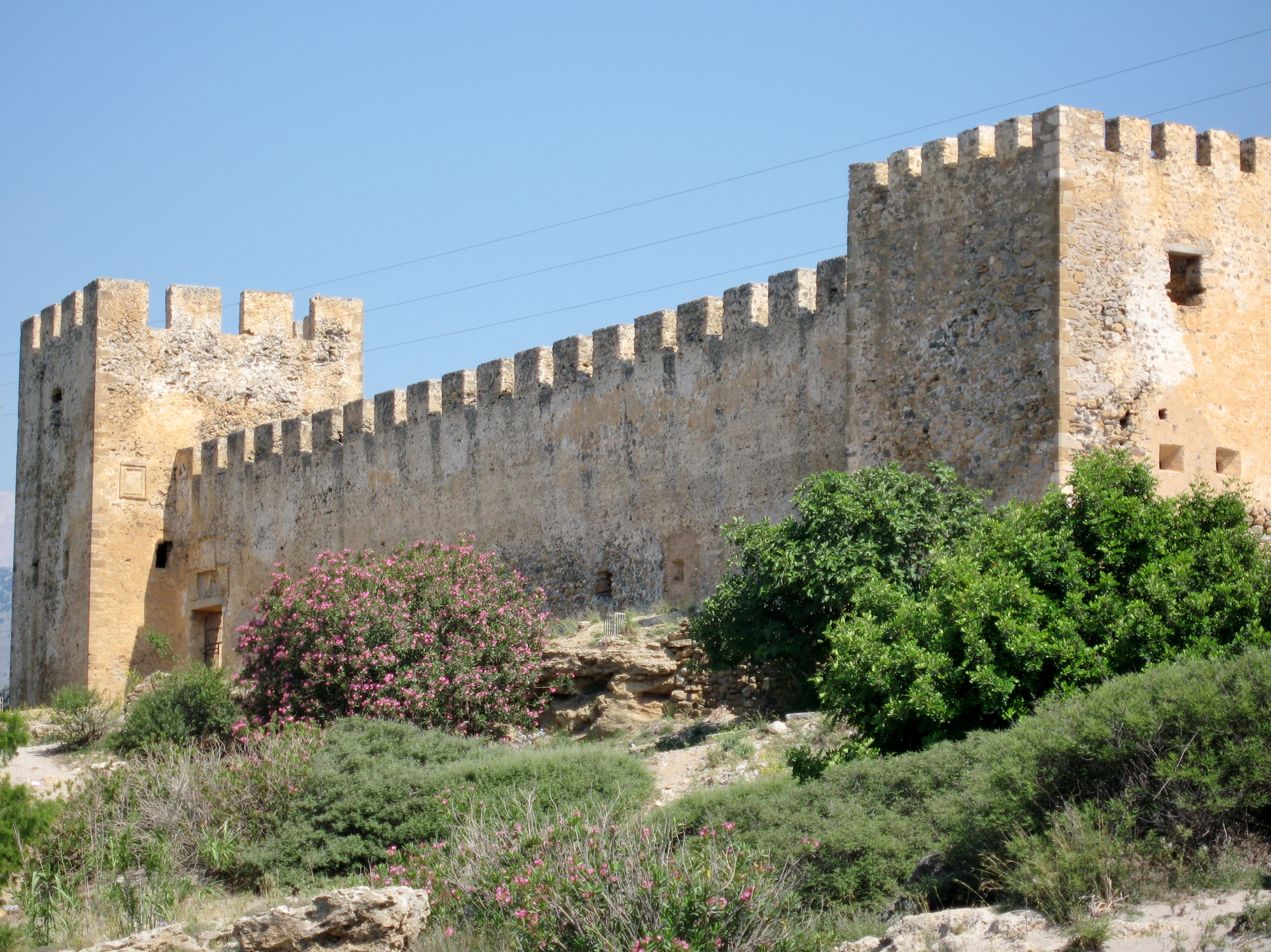 Frangokastello, Sfakia, Nomos Chania, Crete, Greece